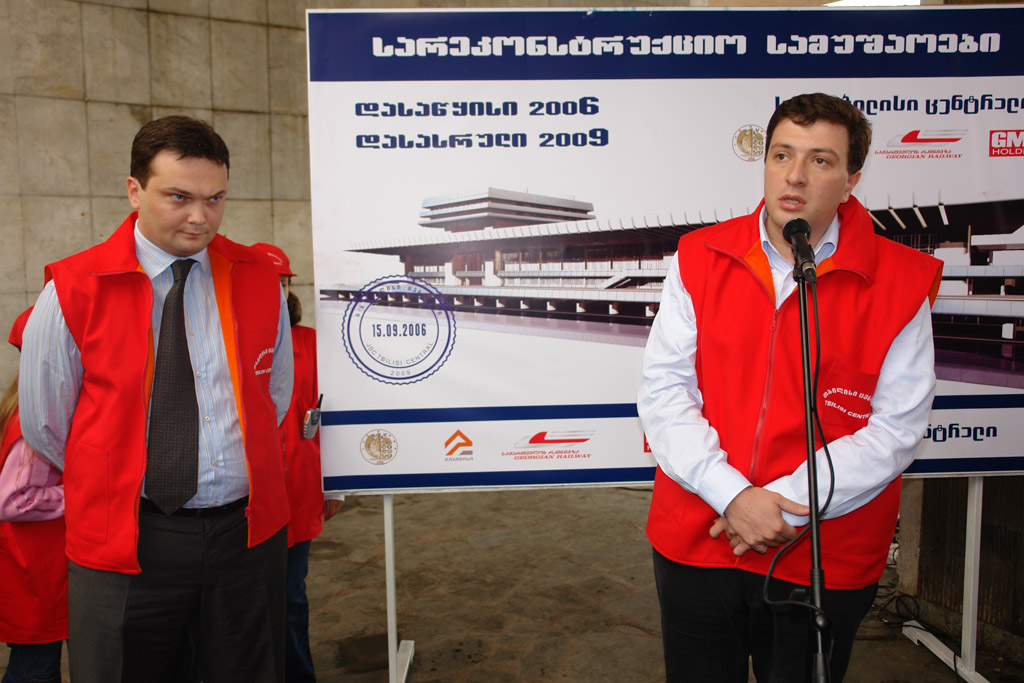 Mayor of Tbilisi, Gigi Ugulava, inaugurates the new project of railway stations, 2006.